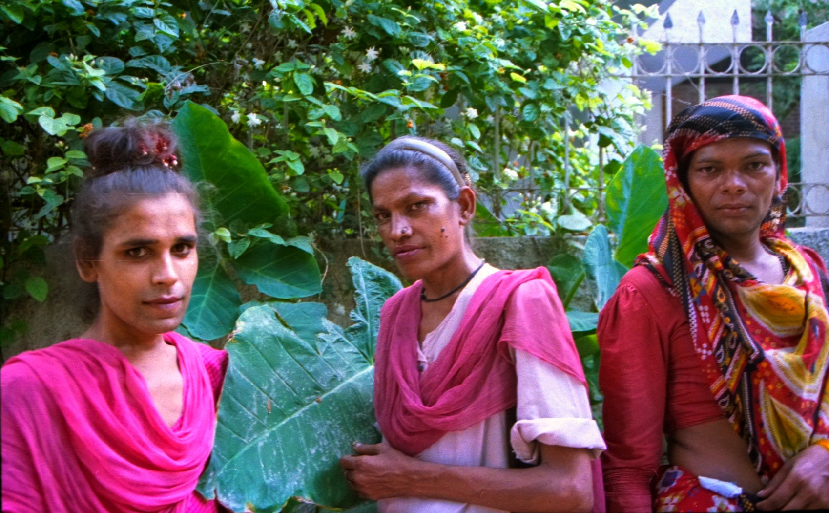 These are the Hijras of the street I lived at in Southern New Delhi. They were most respectful and delightful ladies. Once they learned of my departure, they came for a snap and their tip. Hidras still play a role in Indian society.